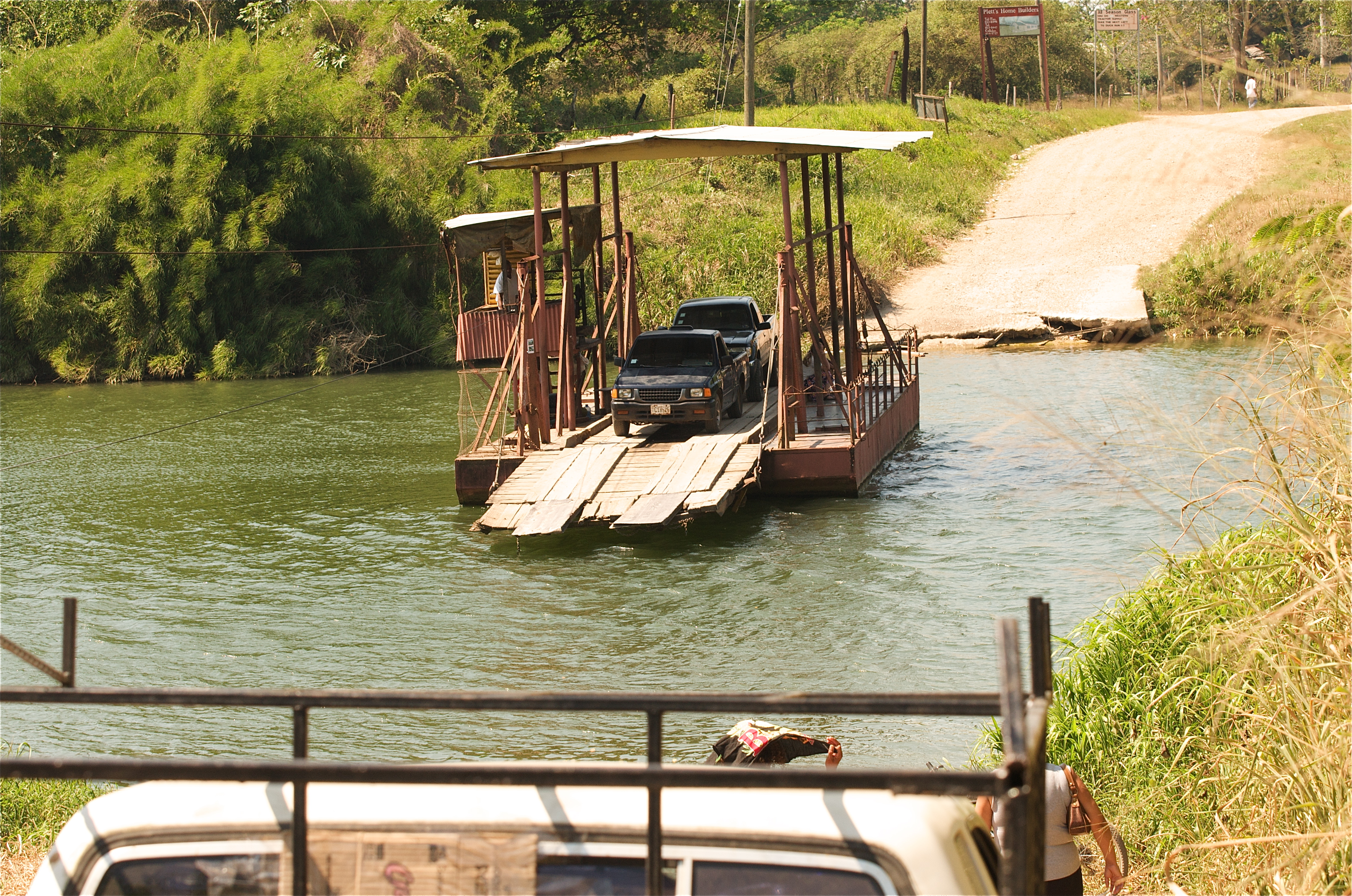 This ferry held a motor cycle and three other vehicles. (Belize)